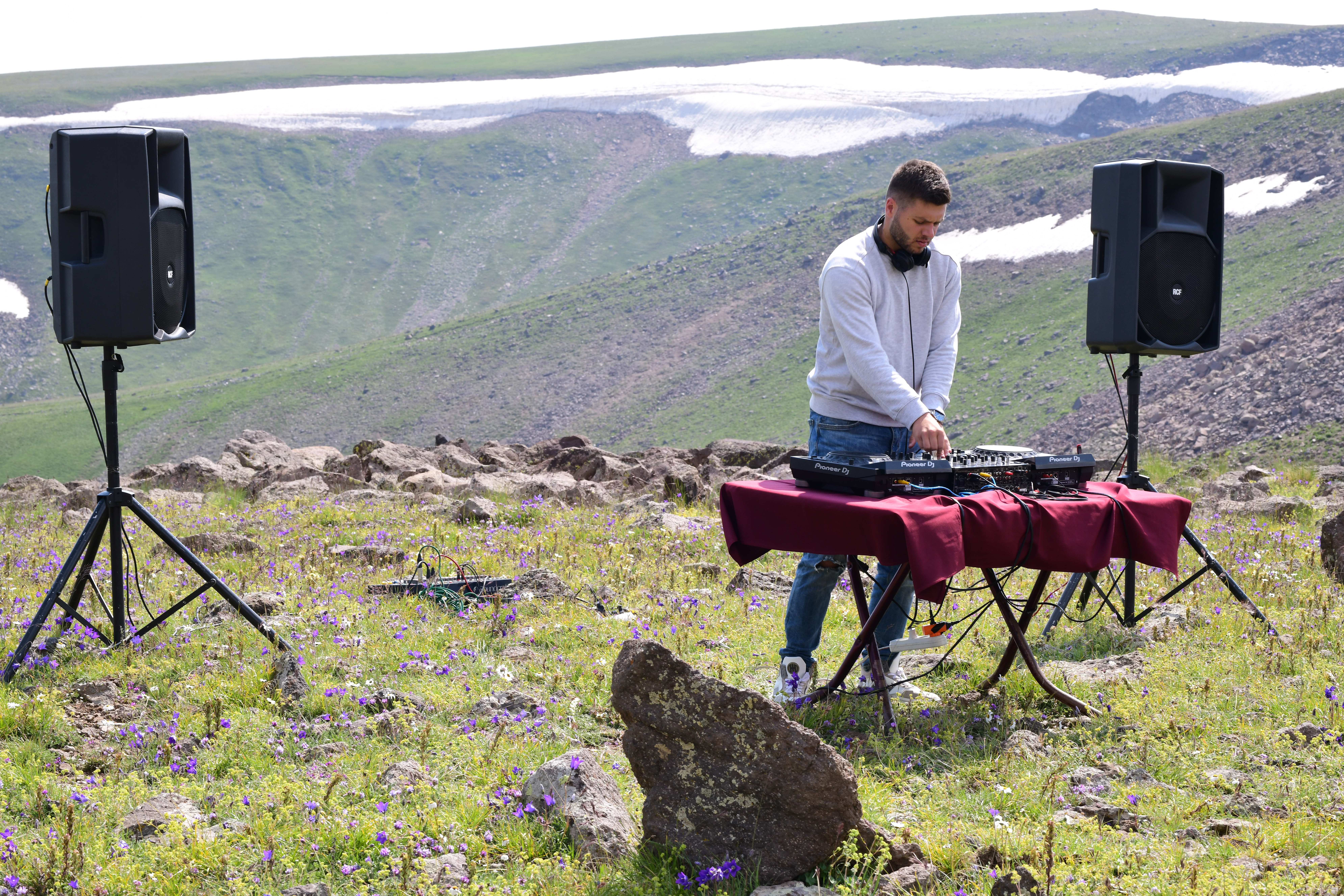 The photo depicts DJ Alber Ensso during his concert on Aragats mountain at the height of 3,153 meters on July 11, 2019